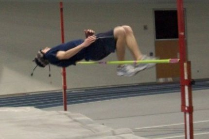 standard high jump